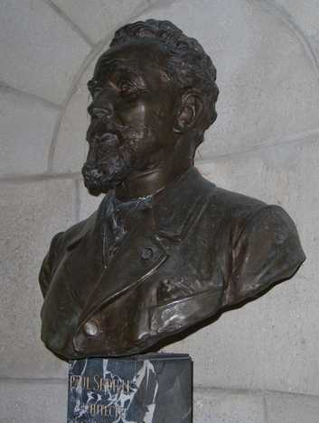 Statue of French Architect Paul Sedille by Henri Guingot (1890) - Domremy-la-Pucelle, basilique du Bois-Chenu, France